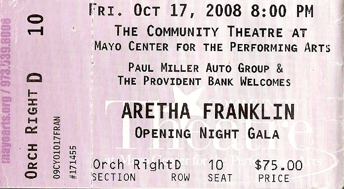 MAYO PAC 2008